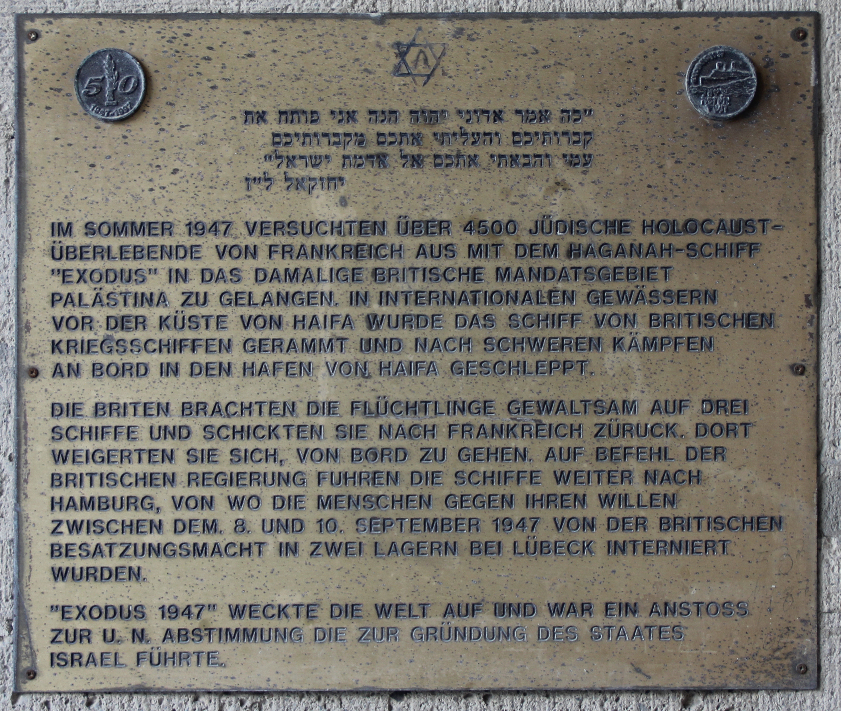 Memorial plaque, Exodus, Bei den St. Pauli Landungsbrücken , Hamburg, Germany